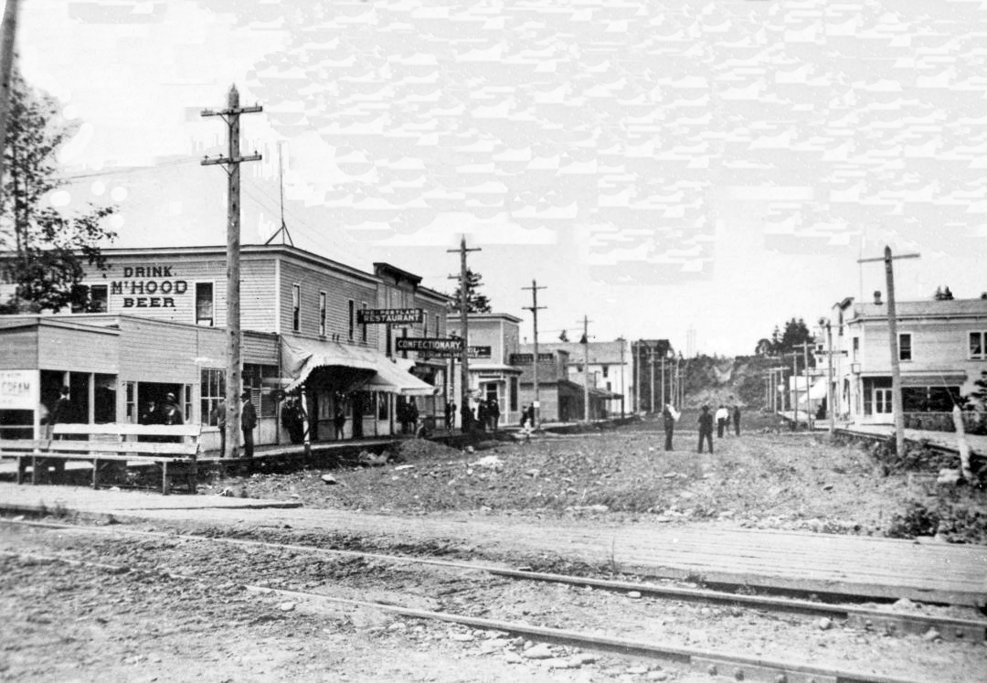 Source: Permission to use Mark Moore